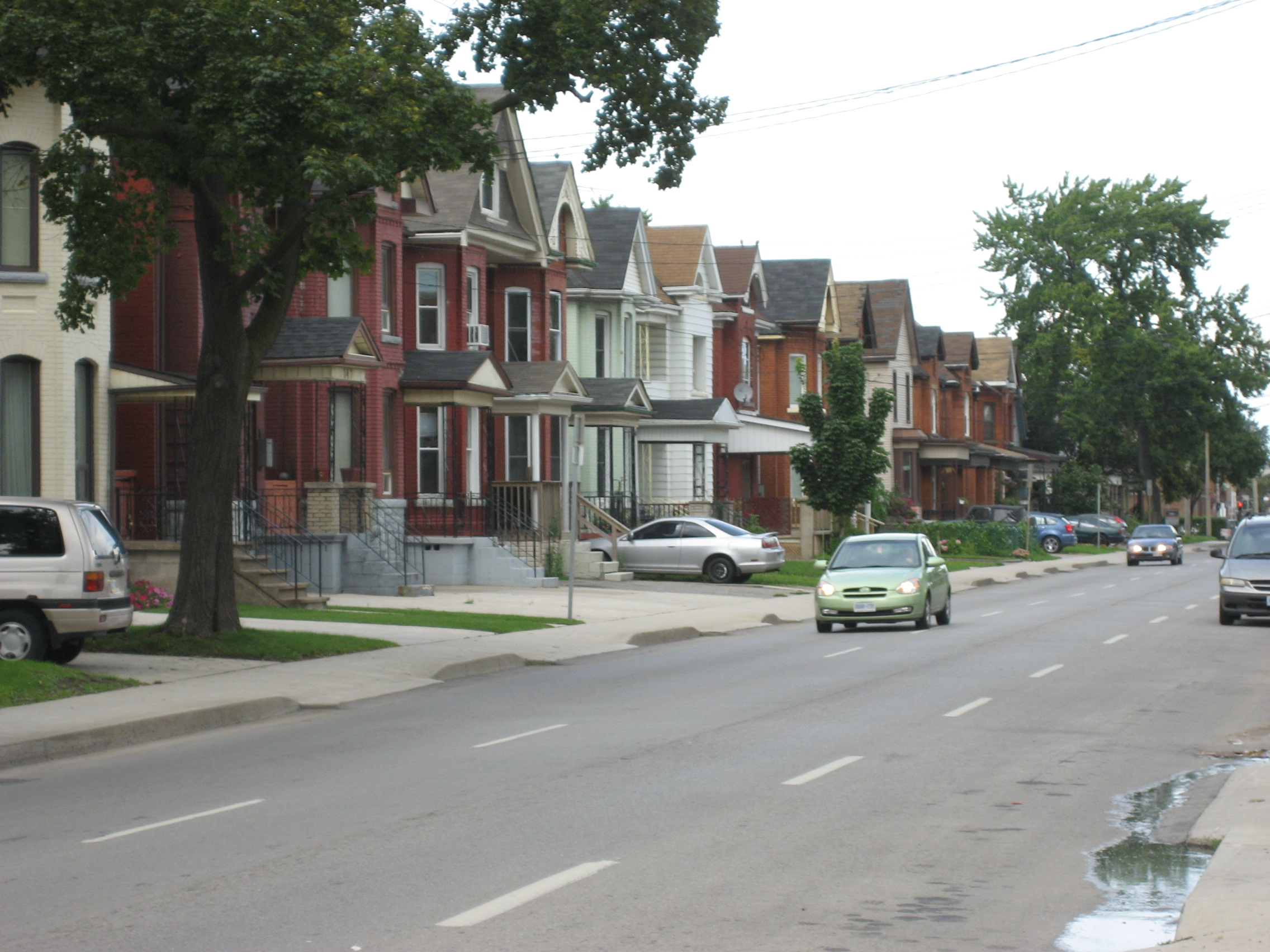 Wentworth Street North, Hamilton, Canada.